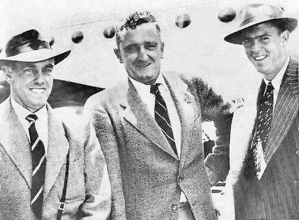 Jack Iverson flanked by Ian Johnson (cricketer) and Bill Johnston (cricketer) in January 1951